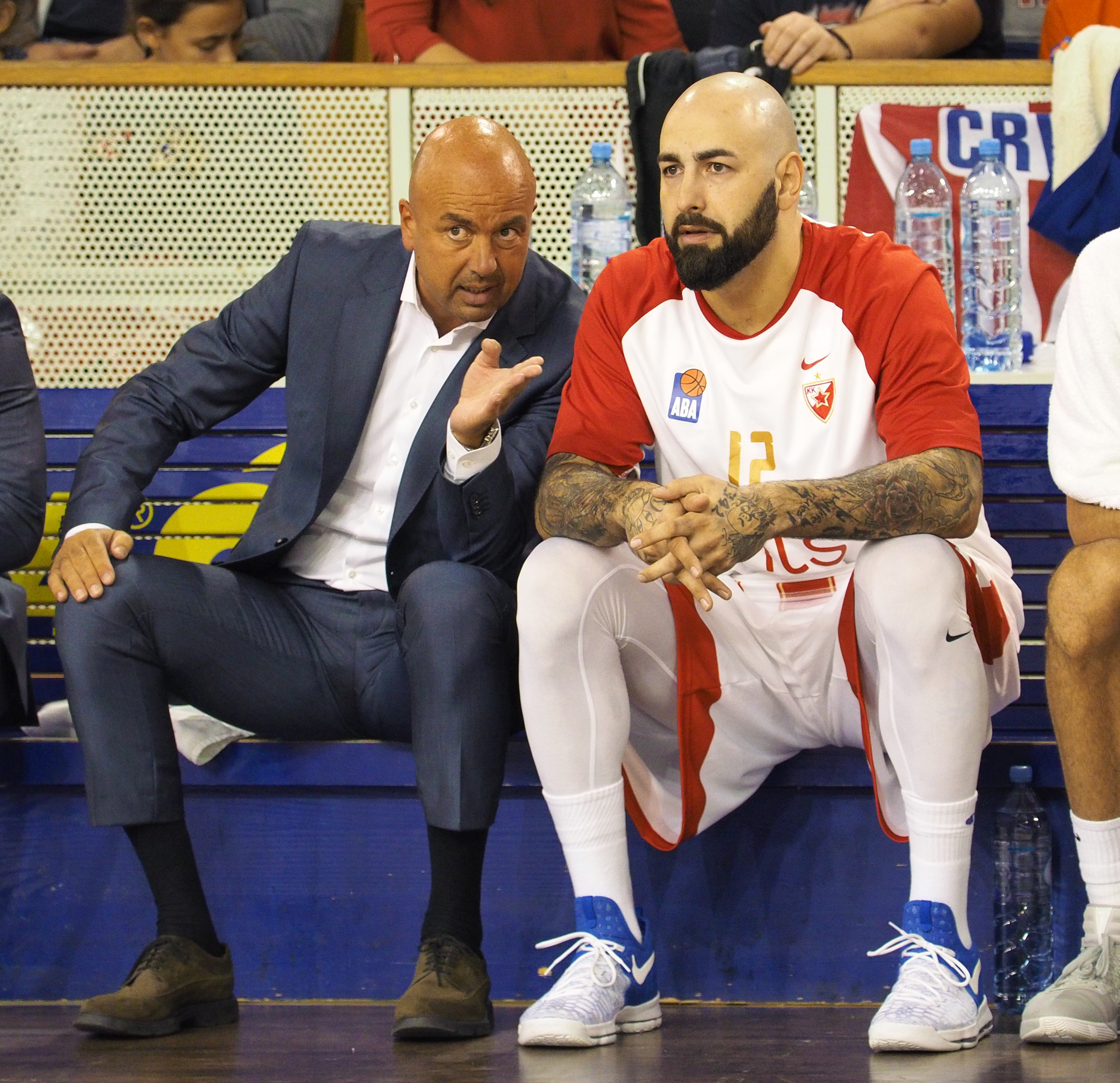 Nebojša Ilić and Pero Antić conversating between the match of KK Crvena zvezda vs Petrol Olimpija (October 2017) This photograph was taken with a Olympus E-M1.